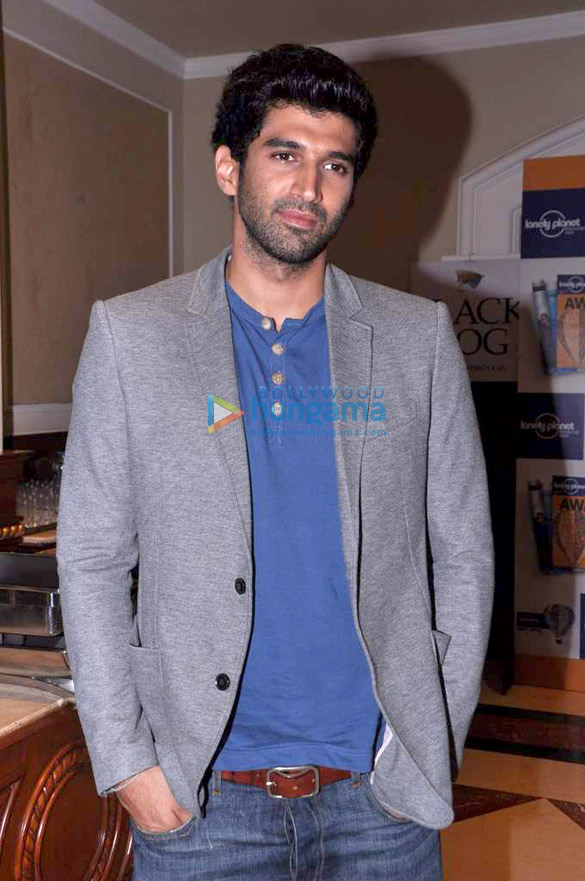 Aditya Roy Kapur at Lonely Planet Travel Awards 2013